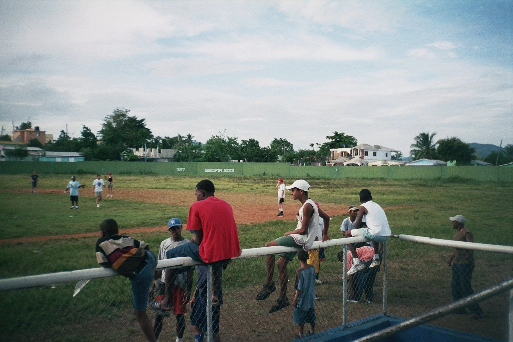 City of El Seibo (Dominican Republic)